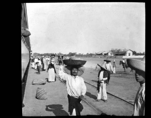 La Barca, train station 1850-1900